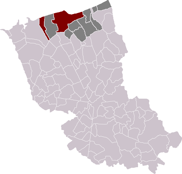 Location of Dunkirk municipality in the arrondissement of Dunkirk. Self made.